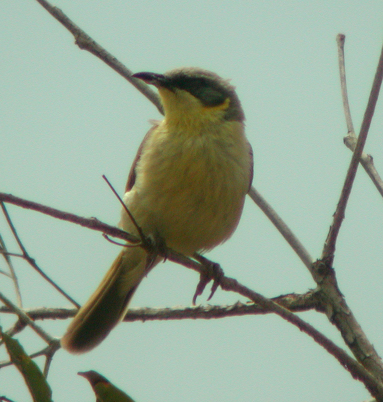 Grey-headed Honeyeater (Lichenostomus keartlandi) Newhaven, NT, Australia